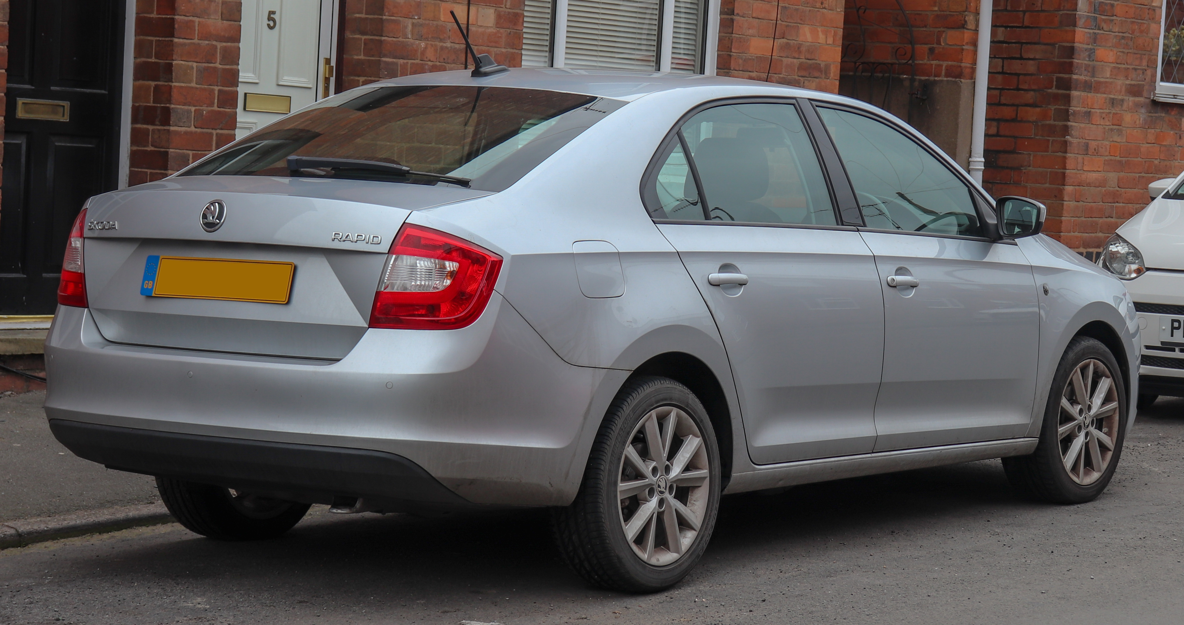 2014 Skoda Rapid SE Connect TSi 1.2 Rear Taken in Warwick